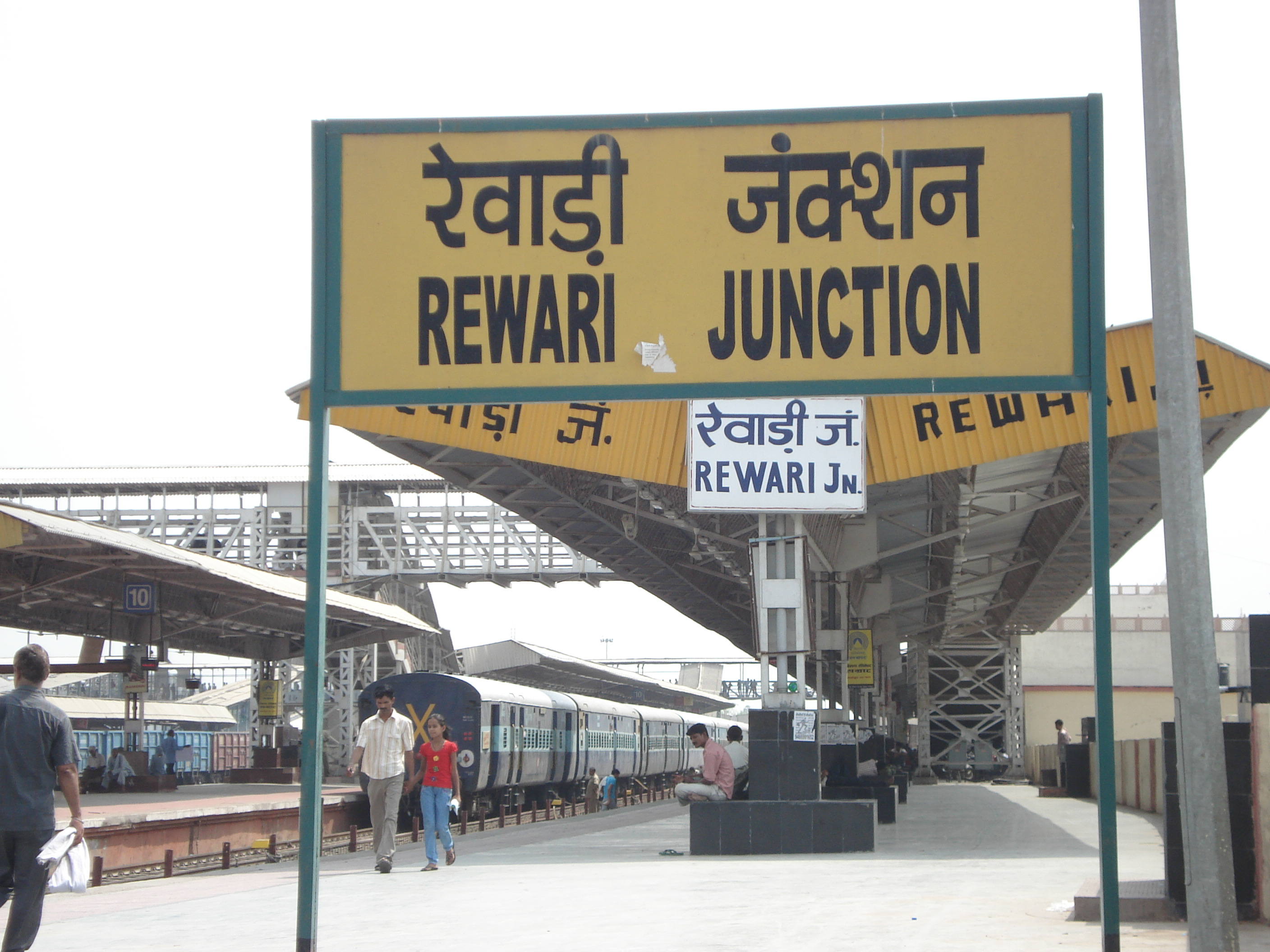 Picture of Rewari Railway Station